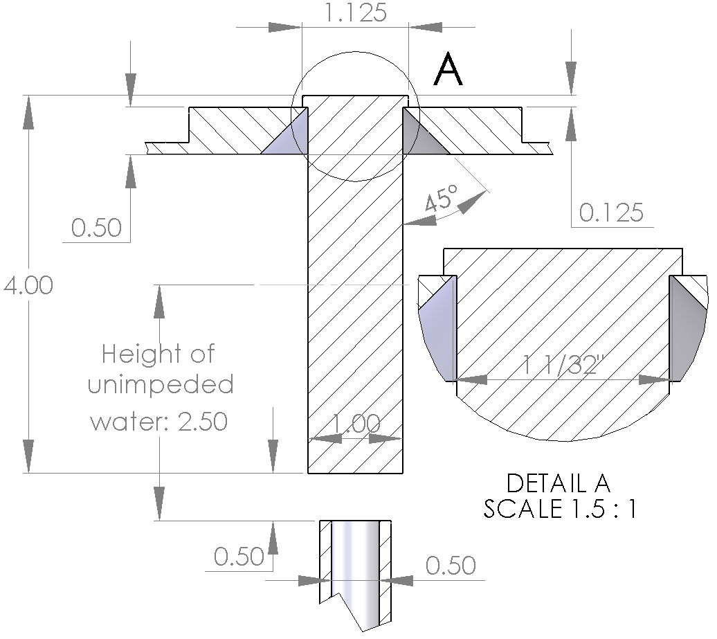 Author: Dustin Elliott Date: 2-24-06 Rev: 3 (fixed incorrect dimension) Layout of a Jominy apparatus. Based on figure 9.36 from W.F. Smith and J. Hashemi, "Foundations of Materials Science and Engineering," 4th ed., McGraw-Hill, 2006, p. 397.